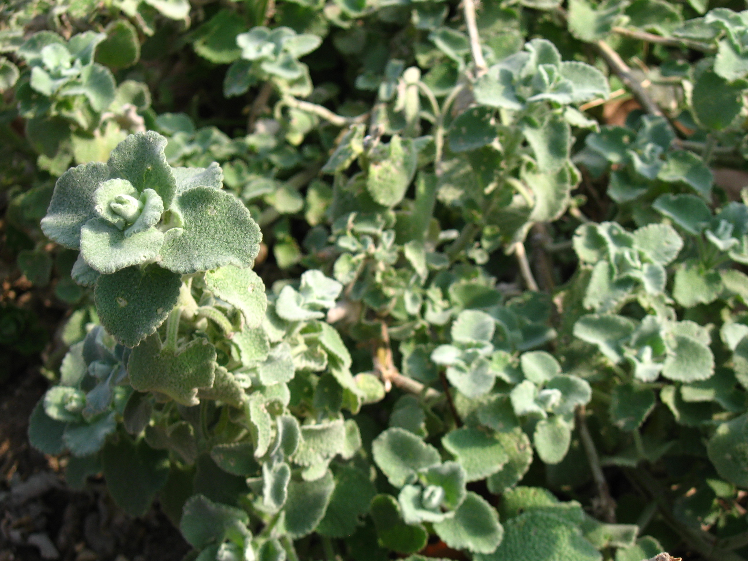 Ballota pseudodictamnus Benth. Lamiaceae